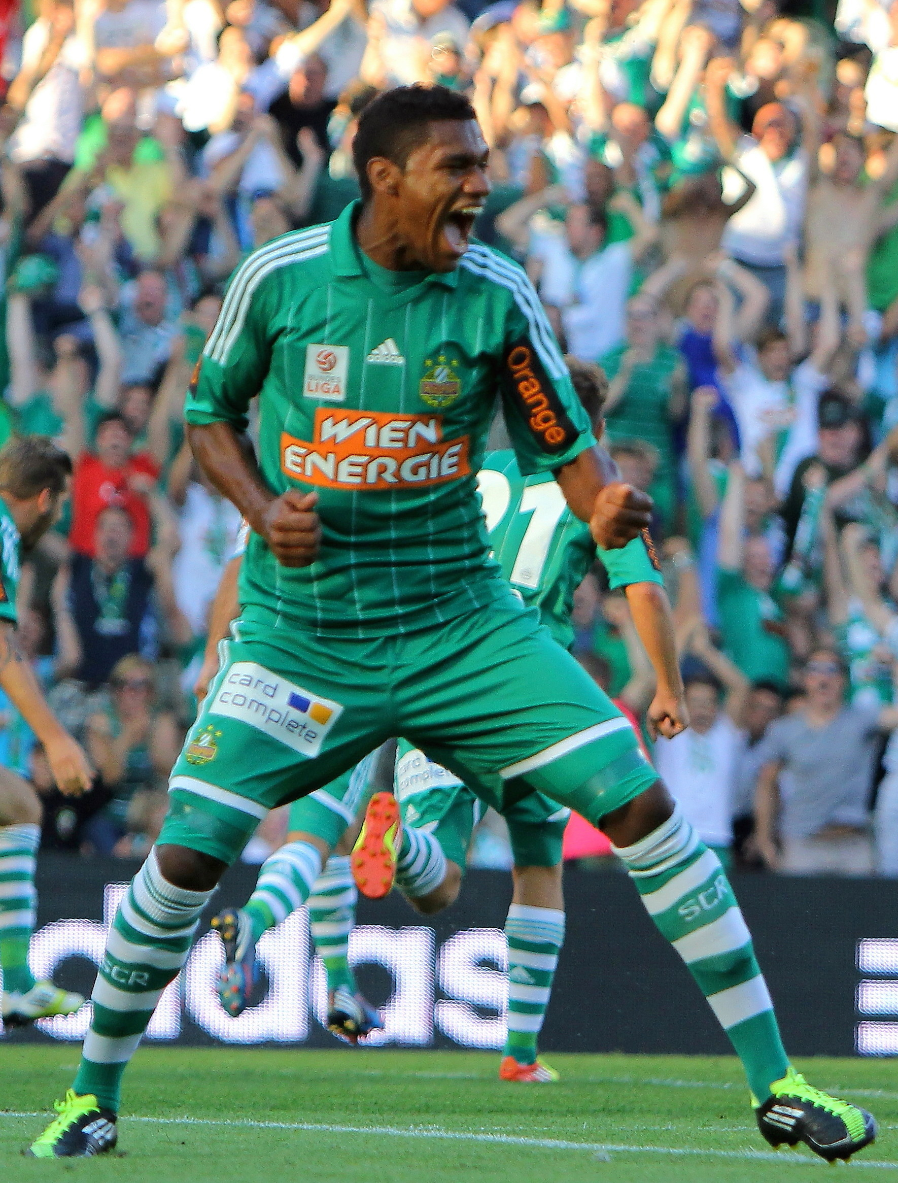 Gerson of Rapid Vienna celebrates scoring against SK Sturm Graz.